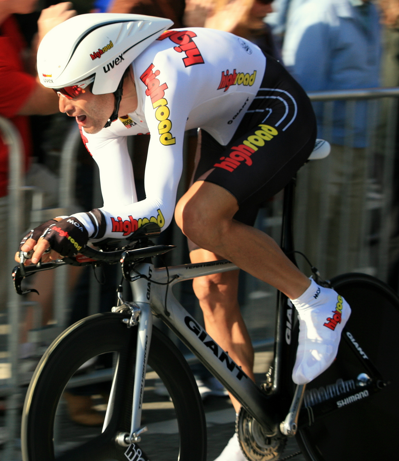 George Hincapie at the Prologue of the Tour of California in Palo Alto